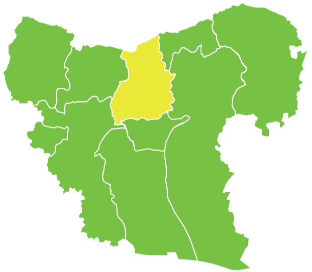 Al Bab District, Syrian governorate of Aleppo Governorate.